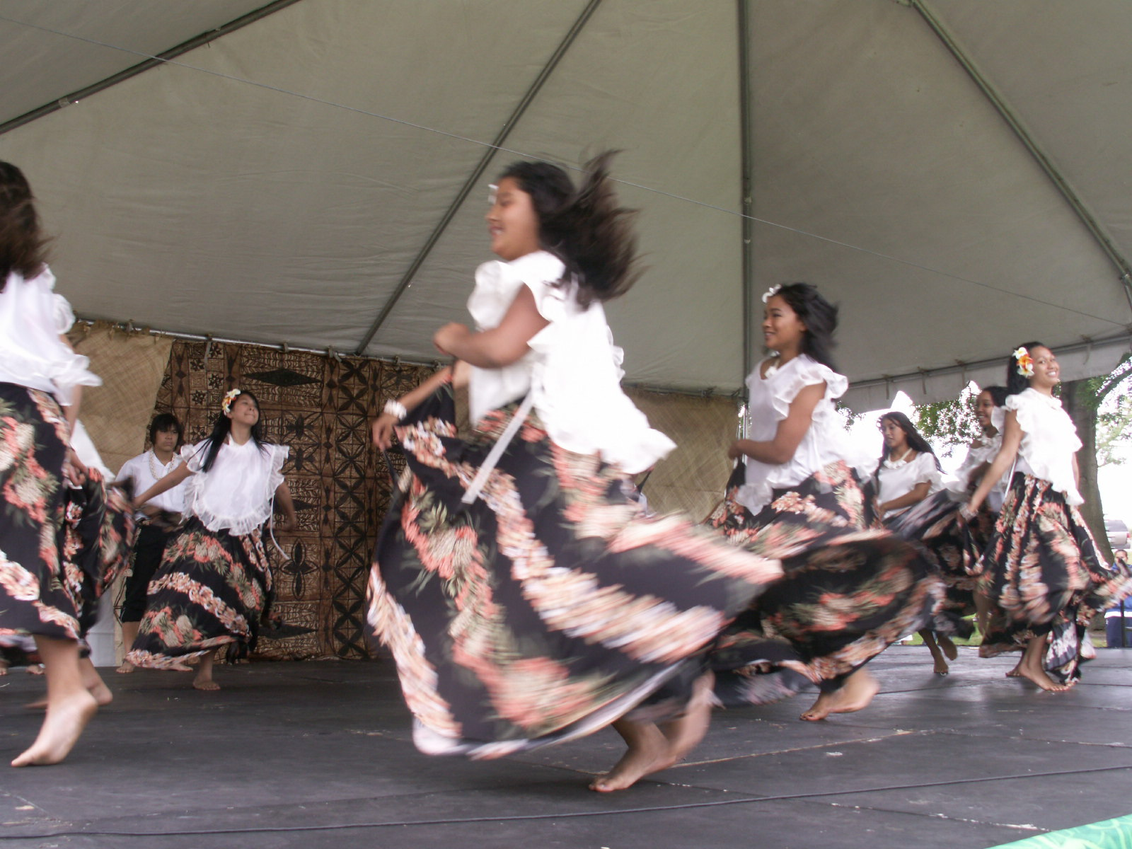 Kutturan Chamoru Performers at the PICC in Harbor City